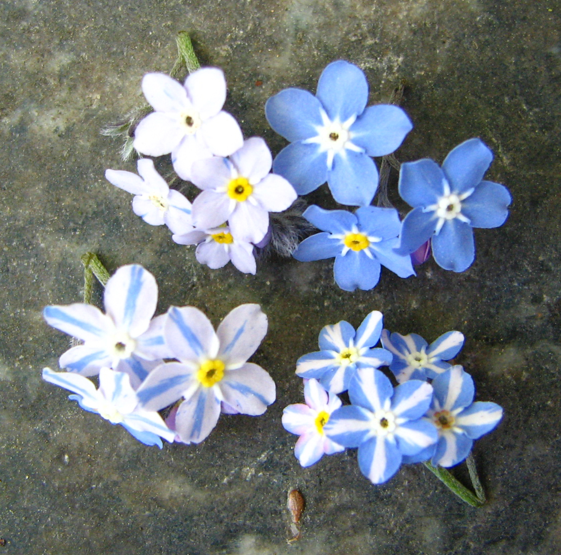 Mendels rules (Myosotis)